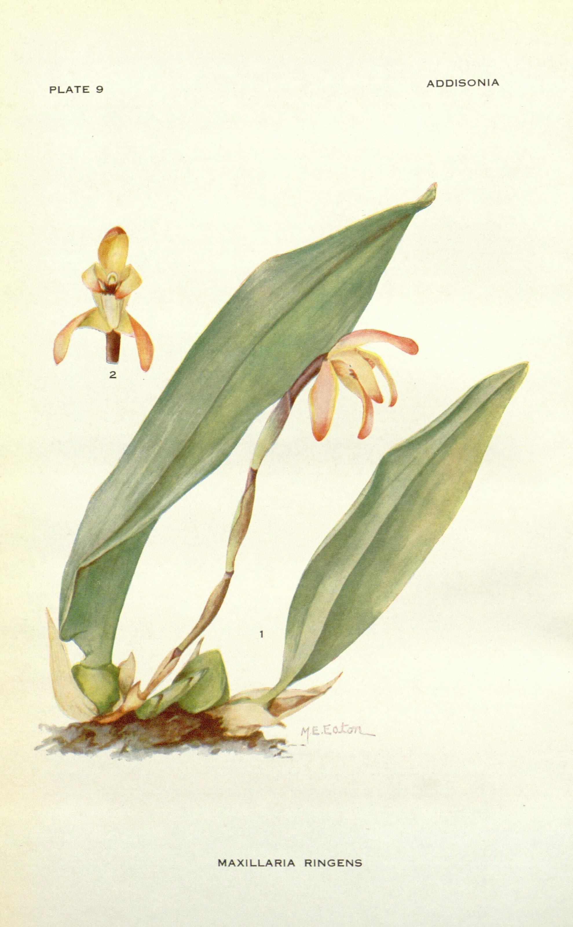 Addisonia : colored illustrations and popular descriptions of plants.